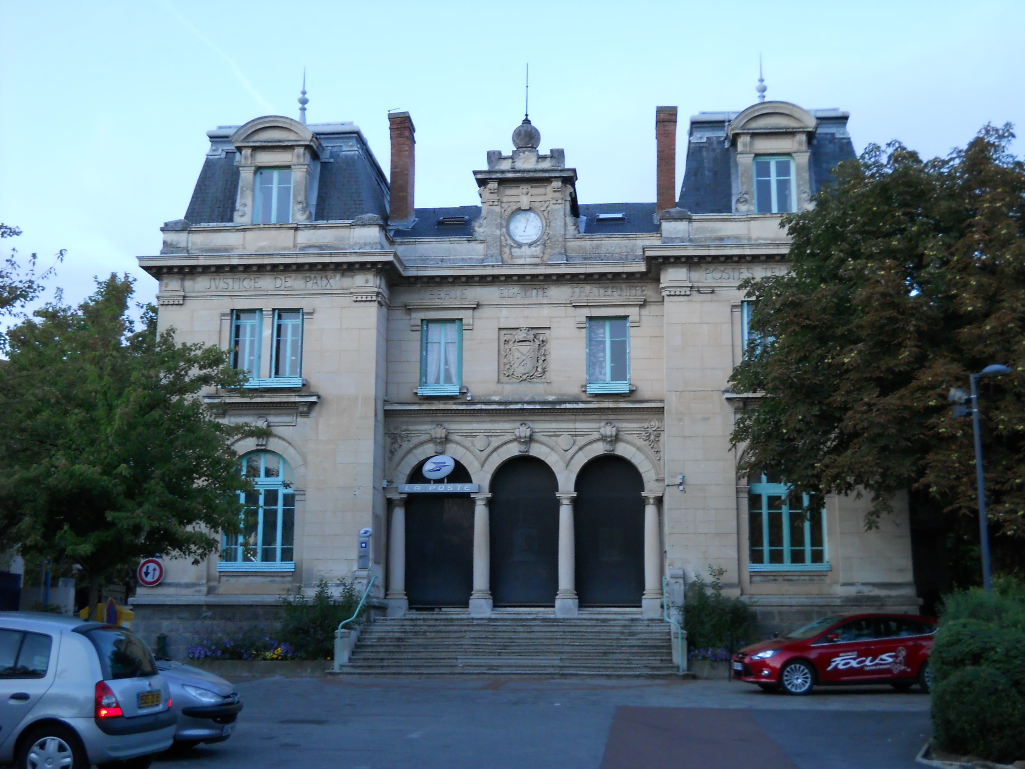 Post office, Mornant, Rhône, France